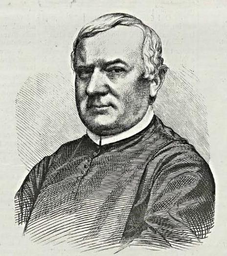 Portrait of József Beély Fidél